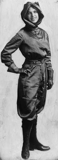 A portrait of Harriet Quimby